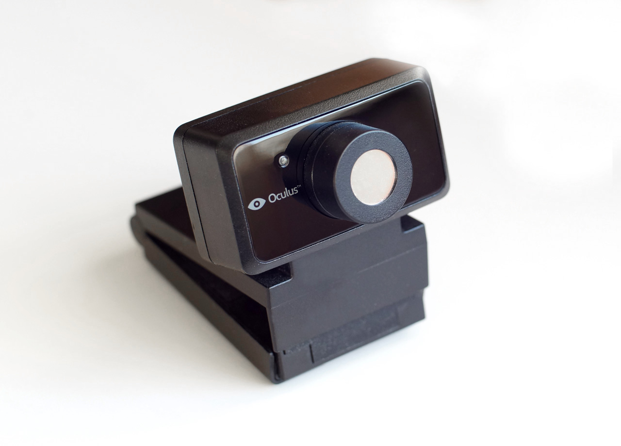 Oculus Rift DK2 positional tracking camera, using a near infrared CMOS sensor, with an update rate of 60Hz.